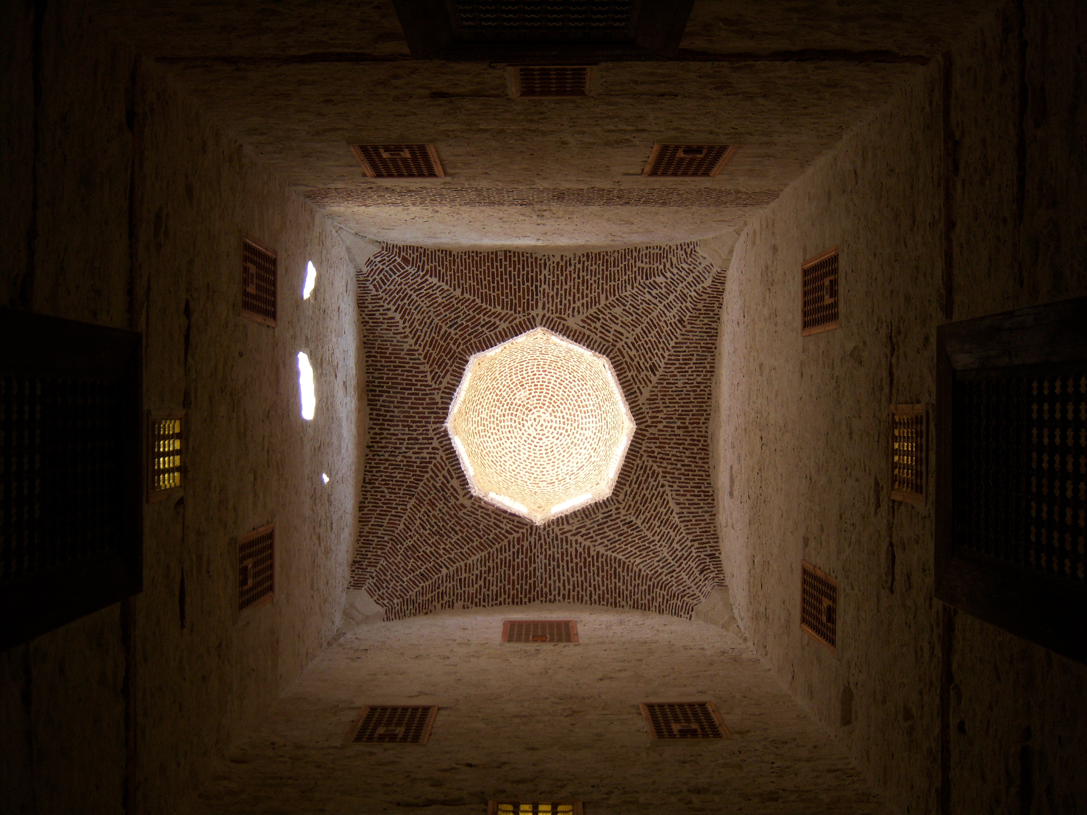 a vault in Qaitbay citadel Alexandria Egypt